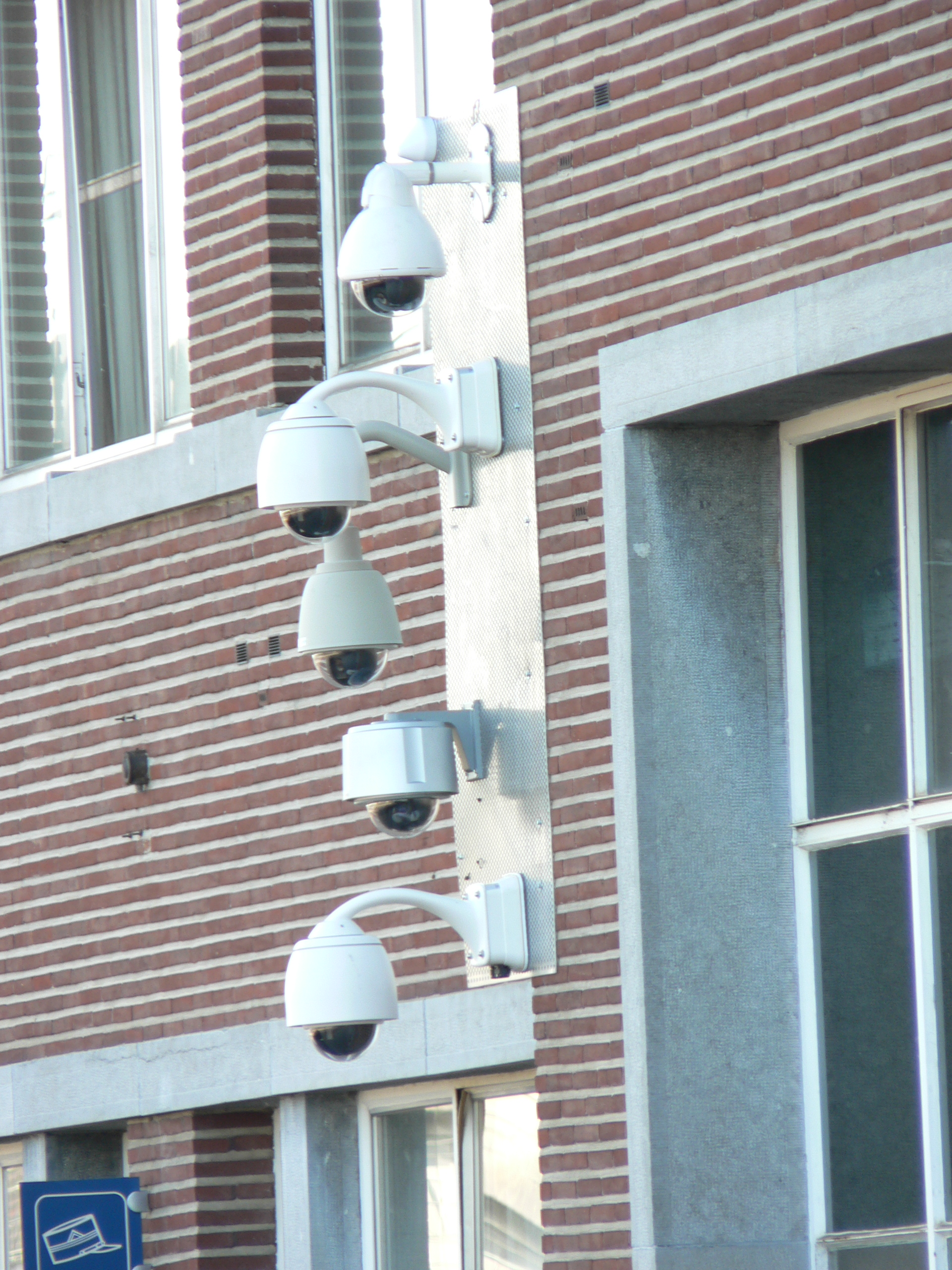 CCTV cameras railway station Aarschot (different types trial)